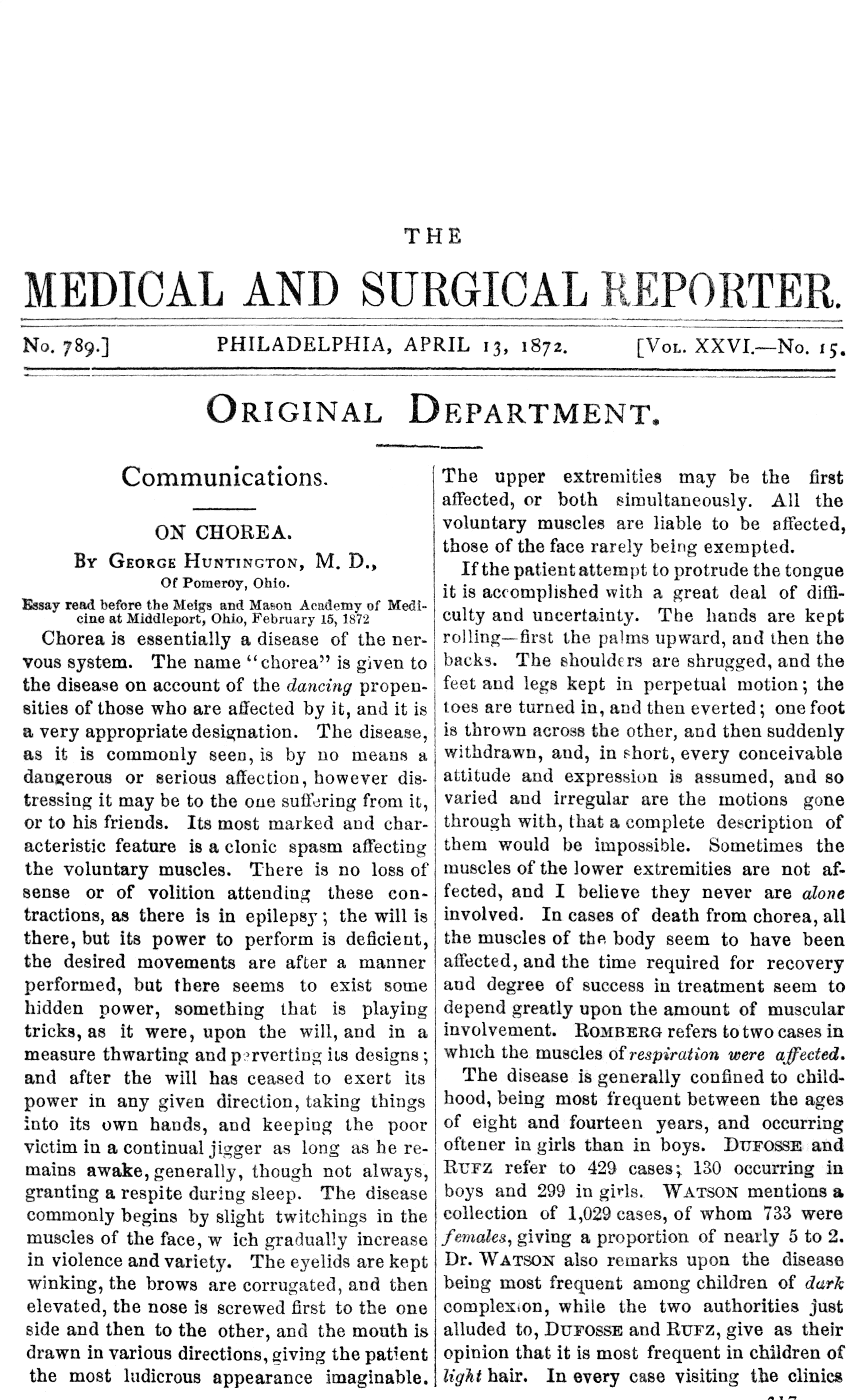 Front page of George Huntington's communication, "On Chorea"